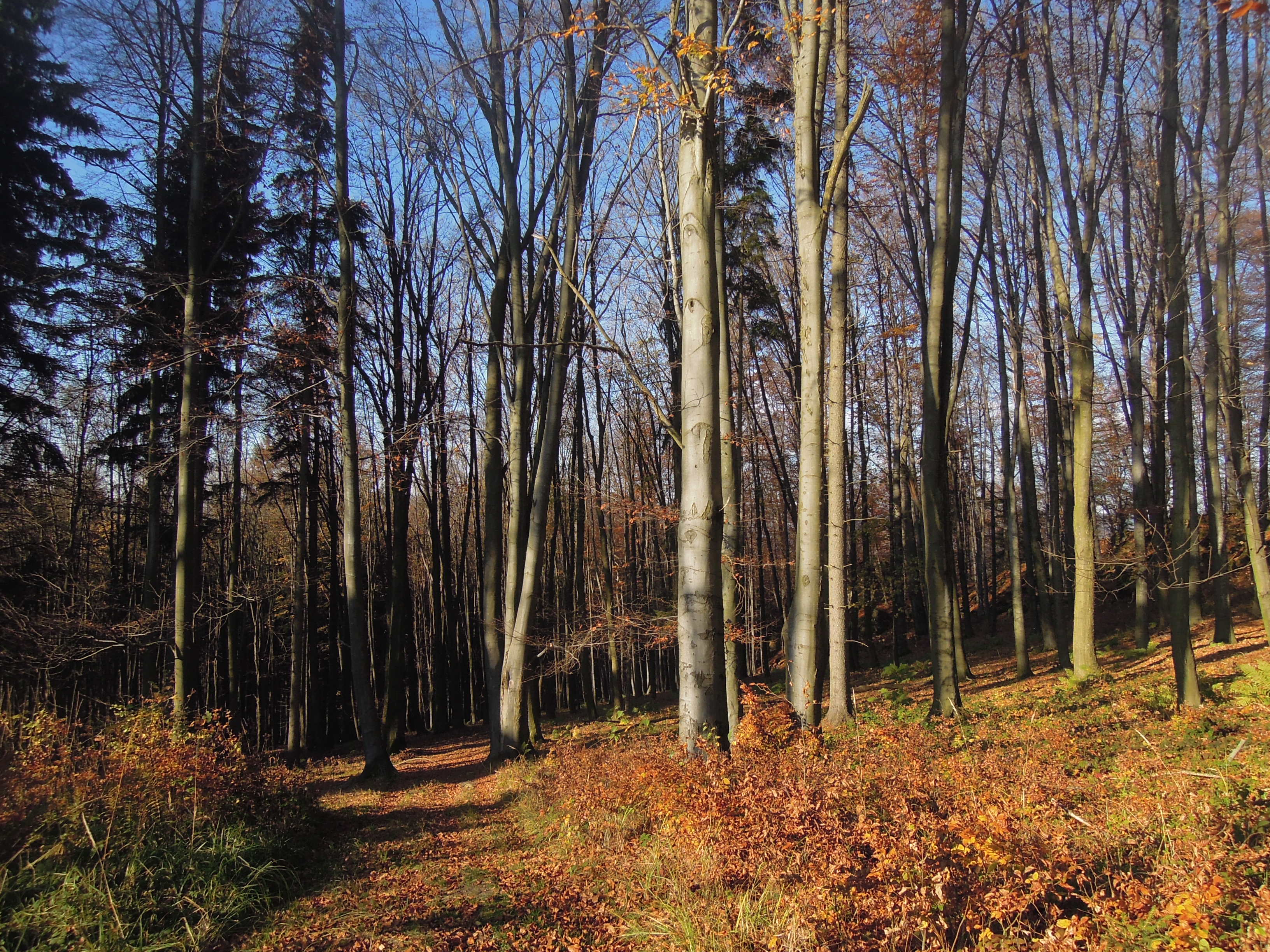 Natural monument Holíkova rezervace in Držková, Zlín District, Zlín Region, Czech Republic